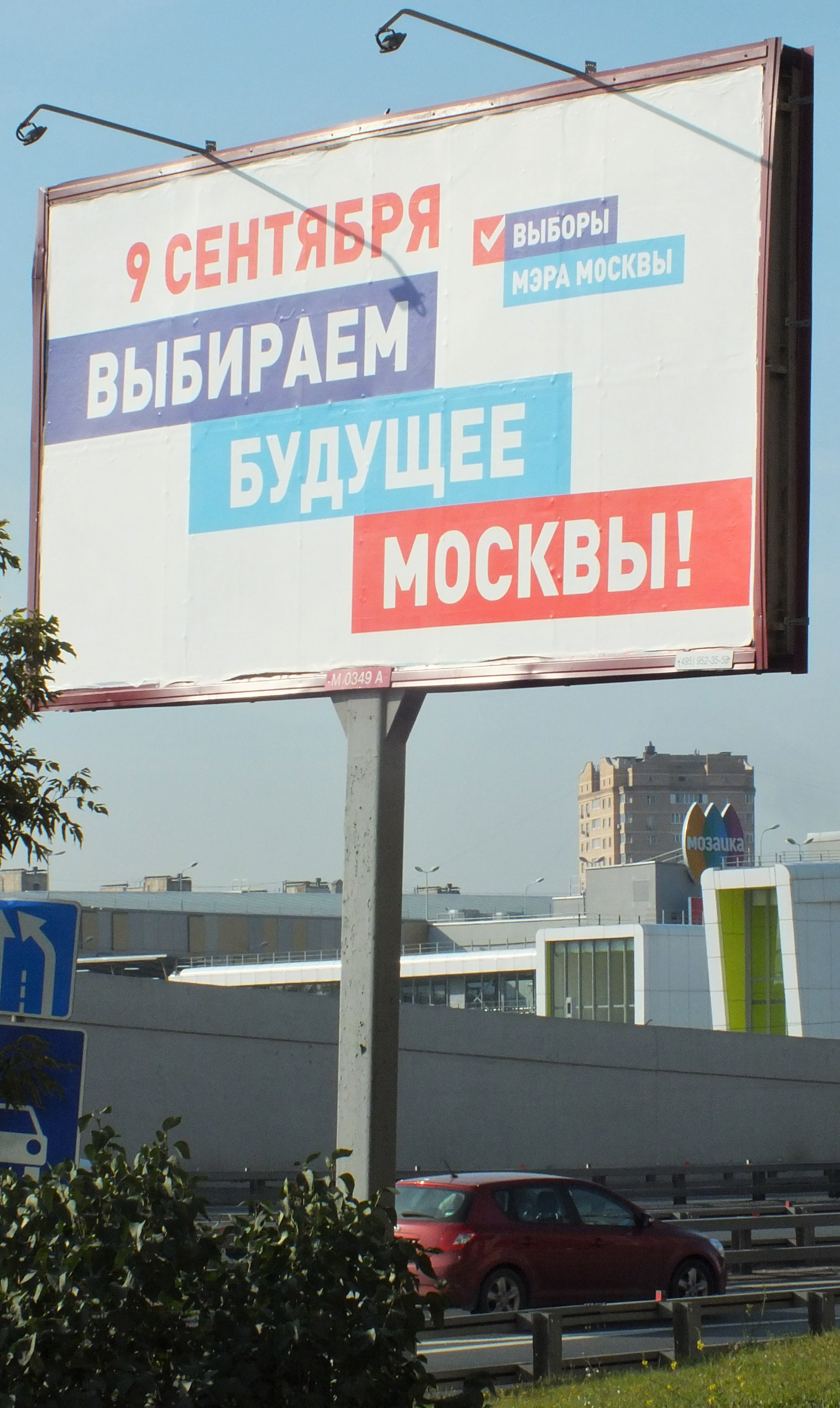 2018 Moscow mayoral election billboard near the Dubrovka station of Moscow Central Circle. Translation the Russian text: (On) 9th September (we) choose (the) future (of) Moscow!